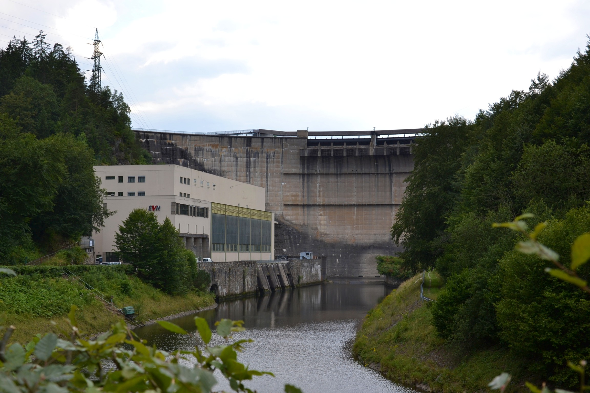 Powerstation of the hydro power plant Ottenstein